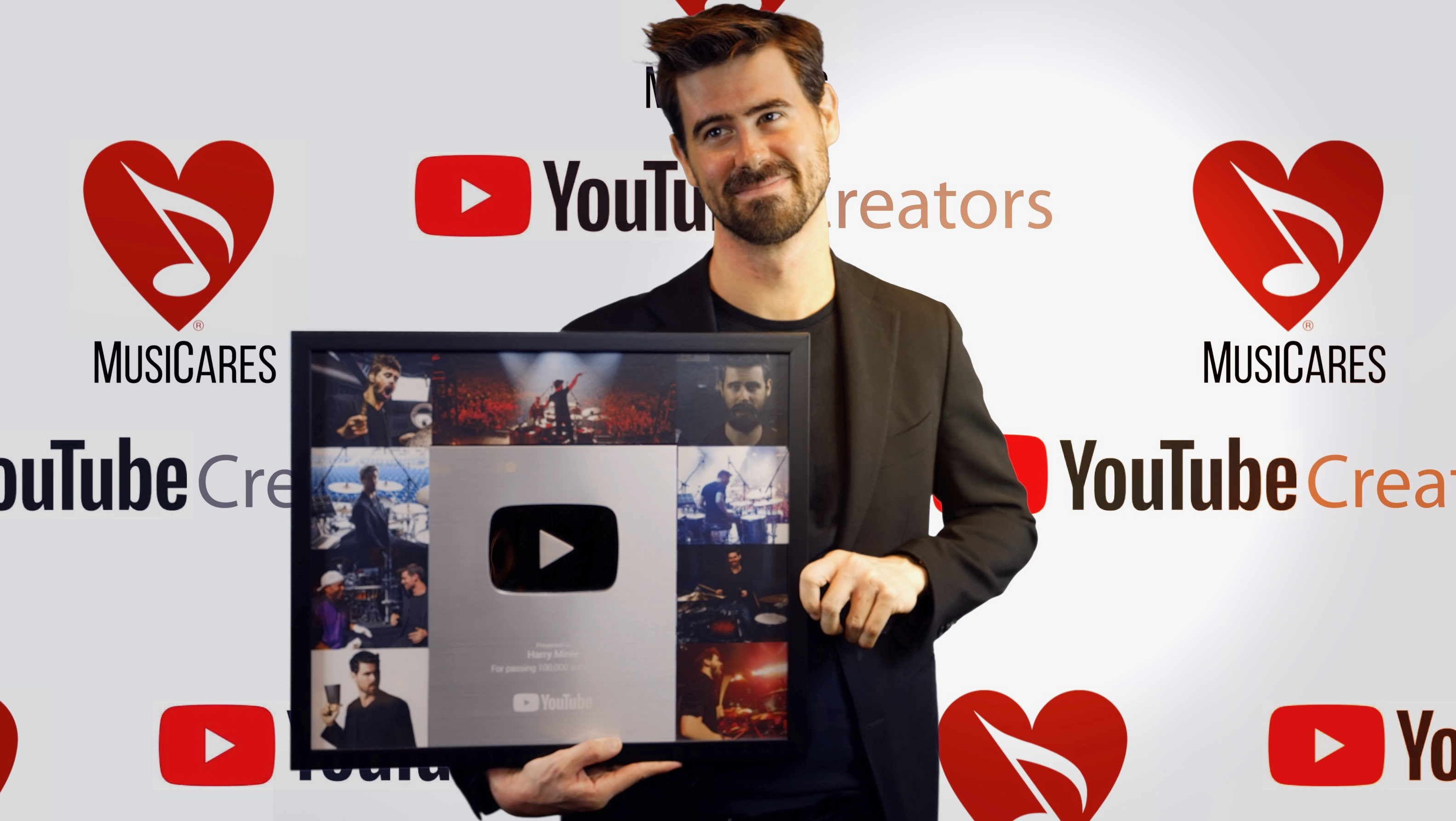 Harry Miree at the 2019 YouTube Creator Awards in Mountain View, California, United States of America